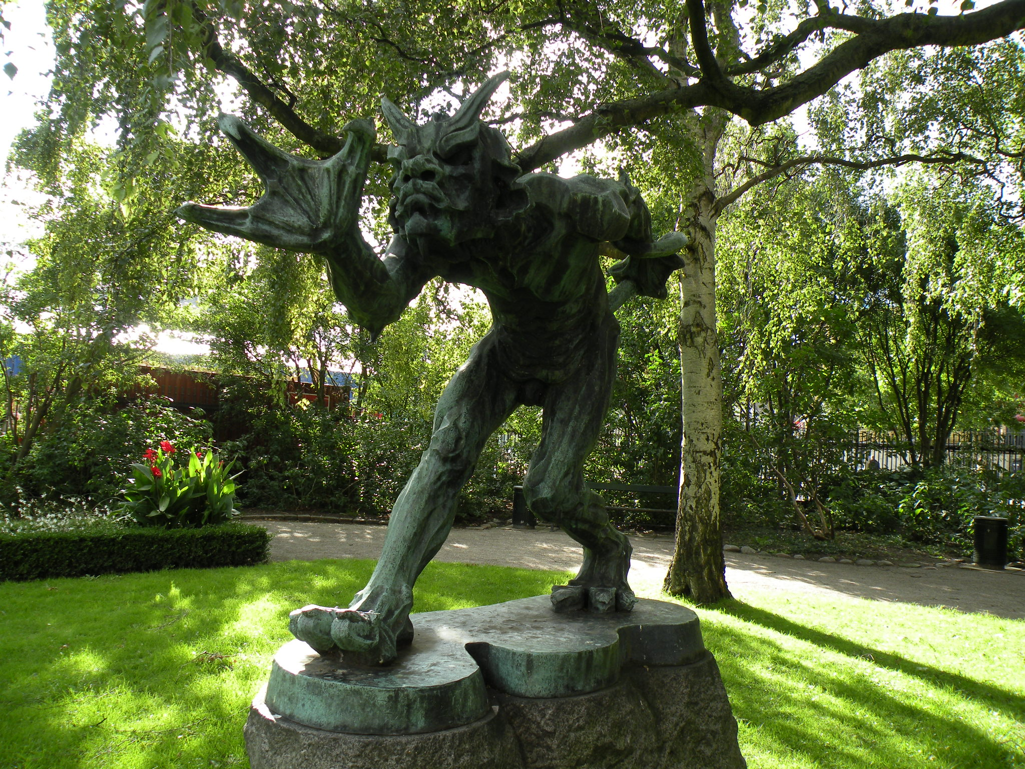 Troll that smells the blood of a Christian at Ny Carlsberg Glyptotek in Copenhagen, Denmark